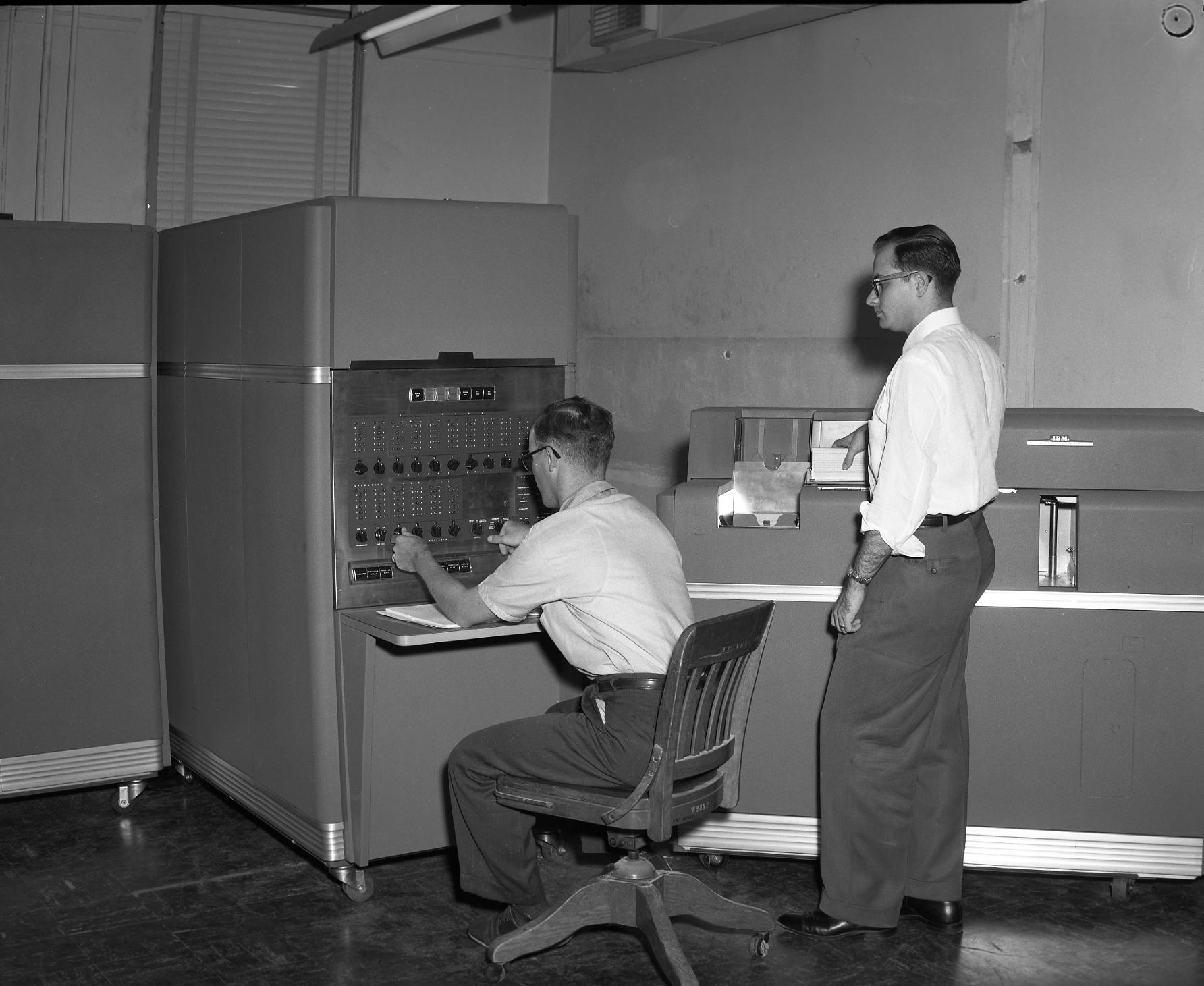 IBM 650 computer at Texas A&M University, College Station, Texas, likely in 1950s